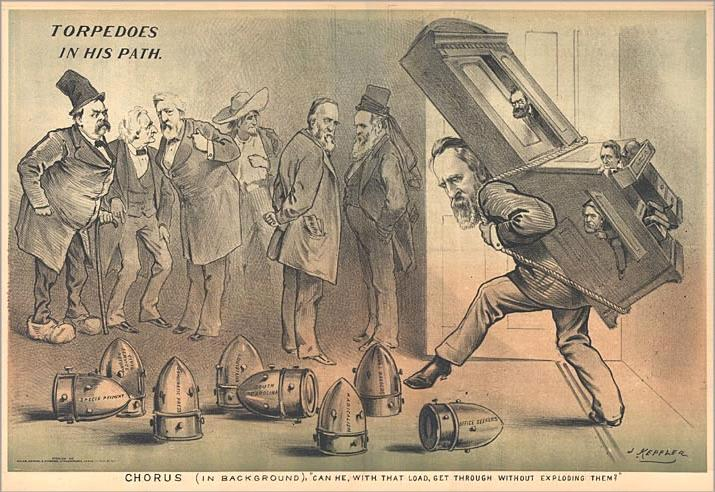 "Torpedoes in His Path: Can he, with that load, get through without exploding them?" U.S. President Rutherford B. Hayes carries a cabinet on his back, containing Vice President William Wheeler, Secretary of the Treasury John Sherman, and Secretary of the Interior Carl Schurz. The "torpedoes" have labels saying "Office Seekers", "Carpet Baggers", "Radicalism", "South Carolina", "Louisiana", "Democratic Press", "Civil Service Reform", and "Specie Payment". In the background are James G. Blaine, John Logan, Abram Hewitt and others. 18"w x 12 1/2"h